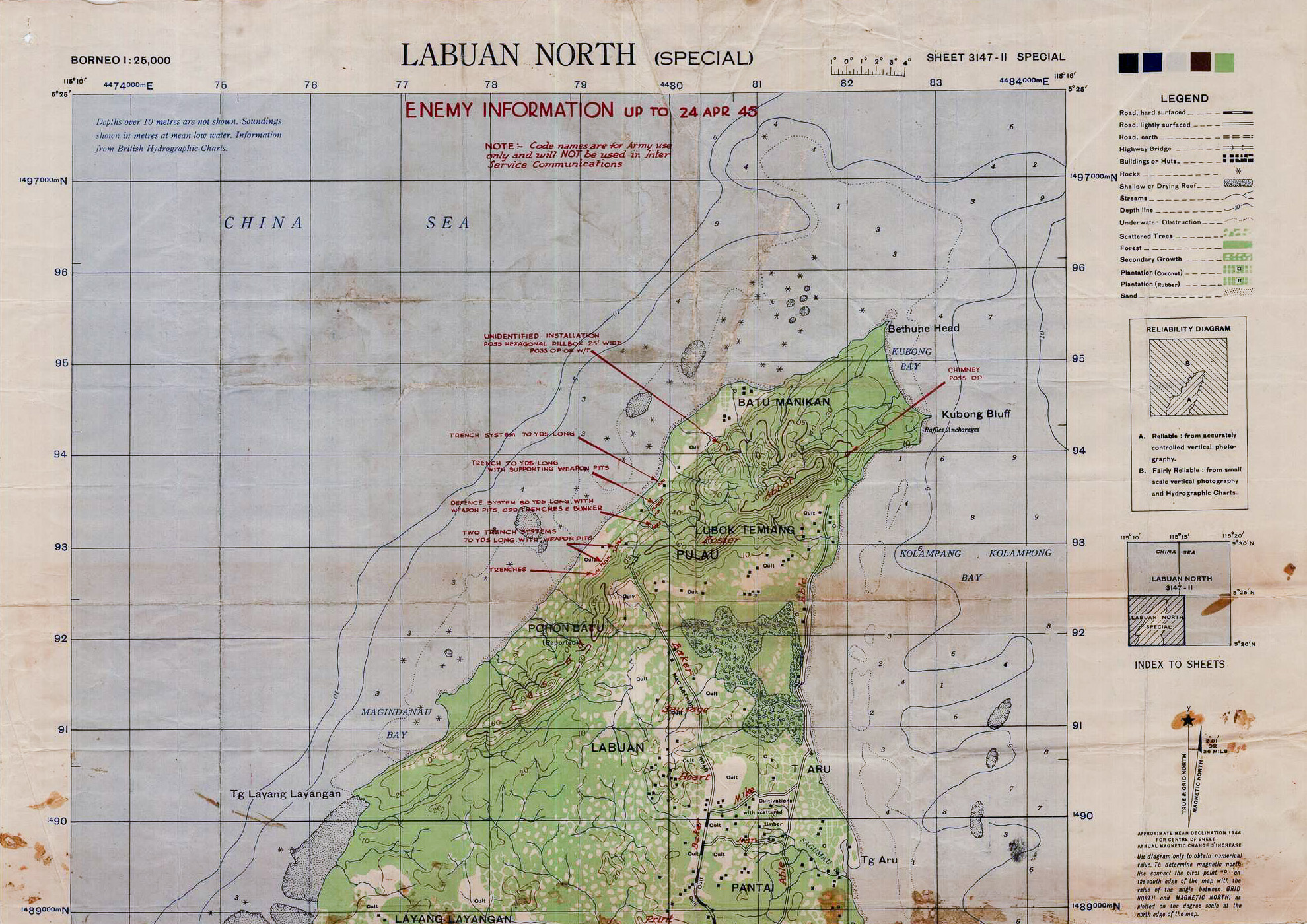 An Allied map of the northern portion of Labuan Island in modern Malaysia, marked with the positions which Allied intelligence believed that the island's Japanese garrison was occupying as at April 1945